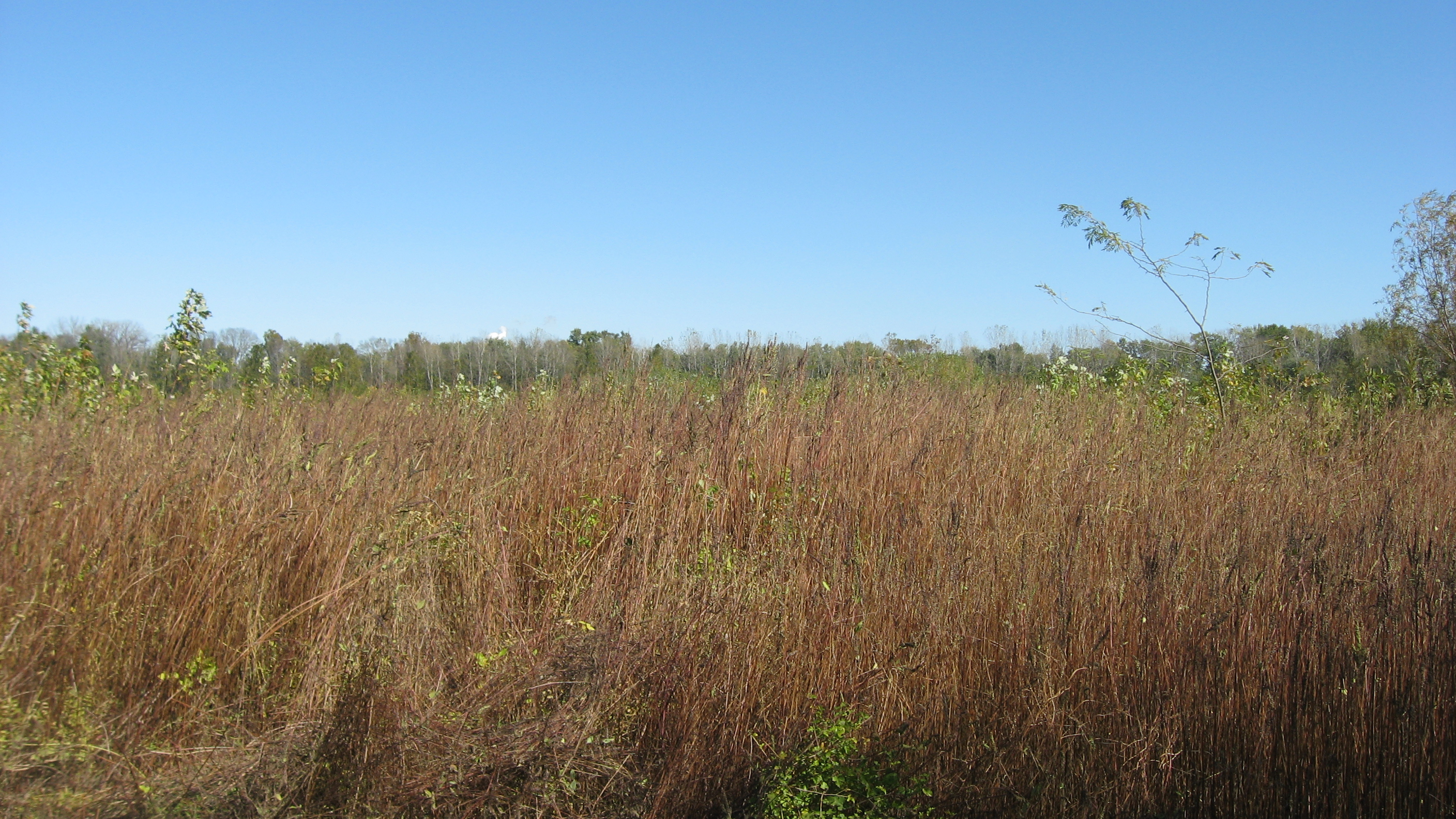 A field at the Riverton Site, located on the northern side of 1150th Avenue northeast of Palestine in Lamotte Township, Crawford County, Illinois, United States. This was the location of a village of the Riverton culture of Native Americans during the Archaic period; today, it is an archaeological site and listed on the National Register of Historic Places.